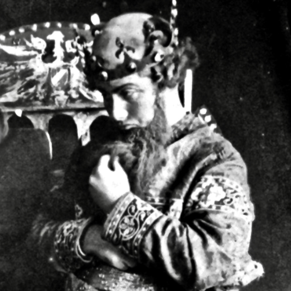 Amateur play at Freie Schulgemeinde (= Free School Community) in Wickersdorf near Saalfeld in the Thuringian Forest, Germany. On the right: the Austrian Hermann Thimig (1890–1982), here acting as Charles the Great (French: Charlemagne), who later became a director, a theatre and film actor.